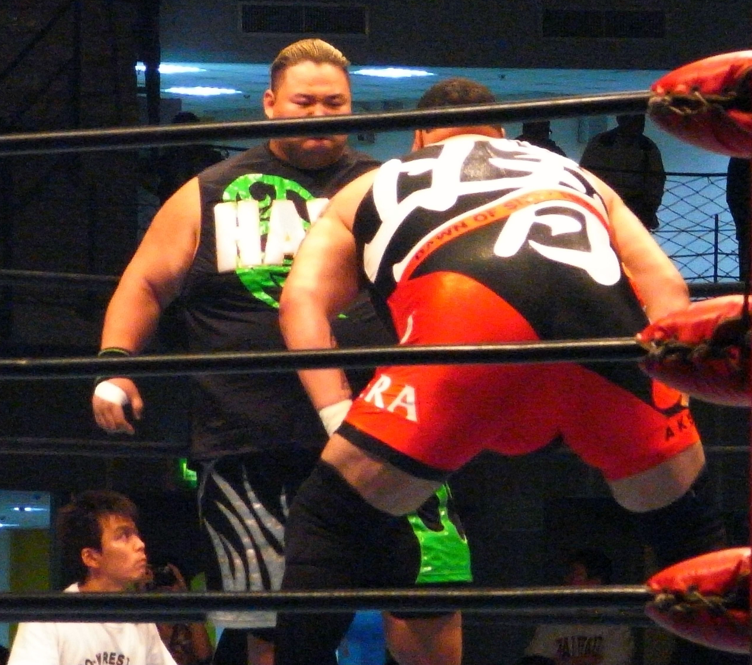 Ryota Hama at AJPW "Pro-Wrestling Love in Taiwan 2010", the National Taiwan University Gymnasium, Taipei.